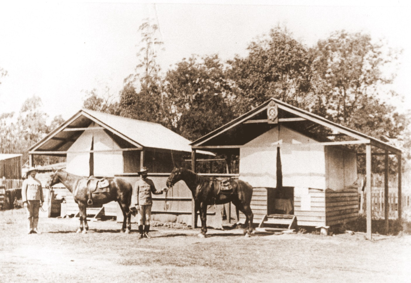 Blackbutt Police Station, 1912. Note the station badge attached to the peak of the right hand tent. Image No. PM0096 Courtesy of the Queensland Police Museum.